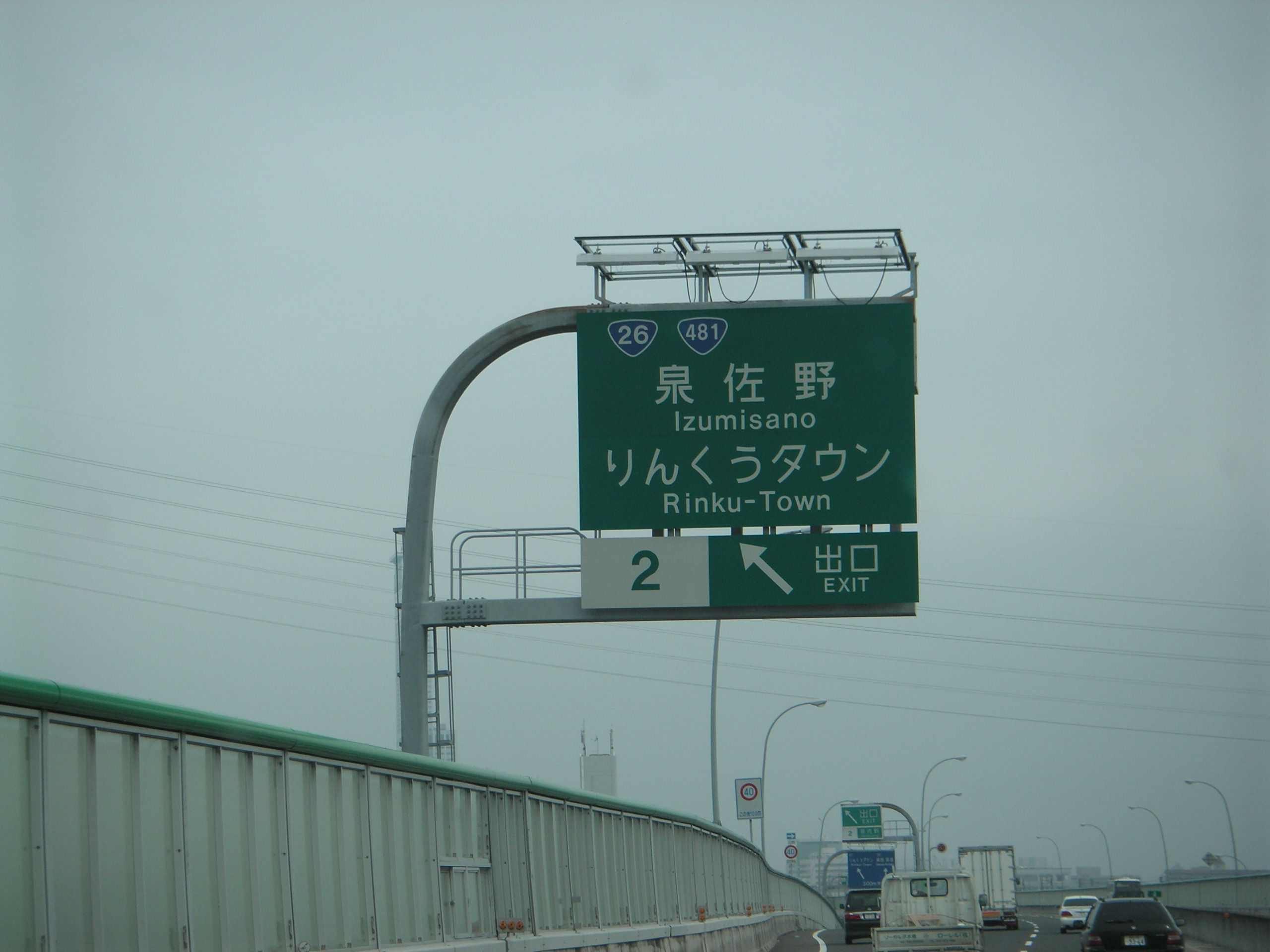 Izumisano IC